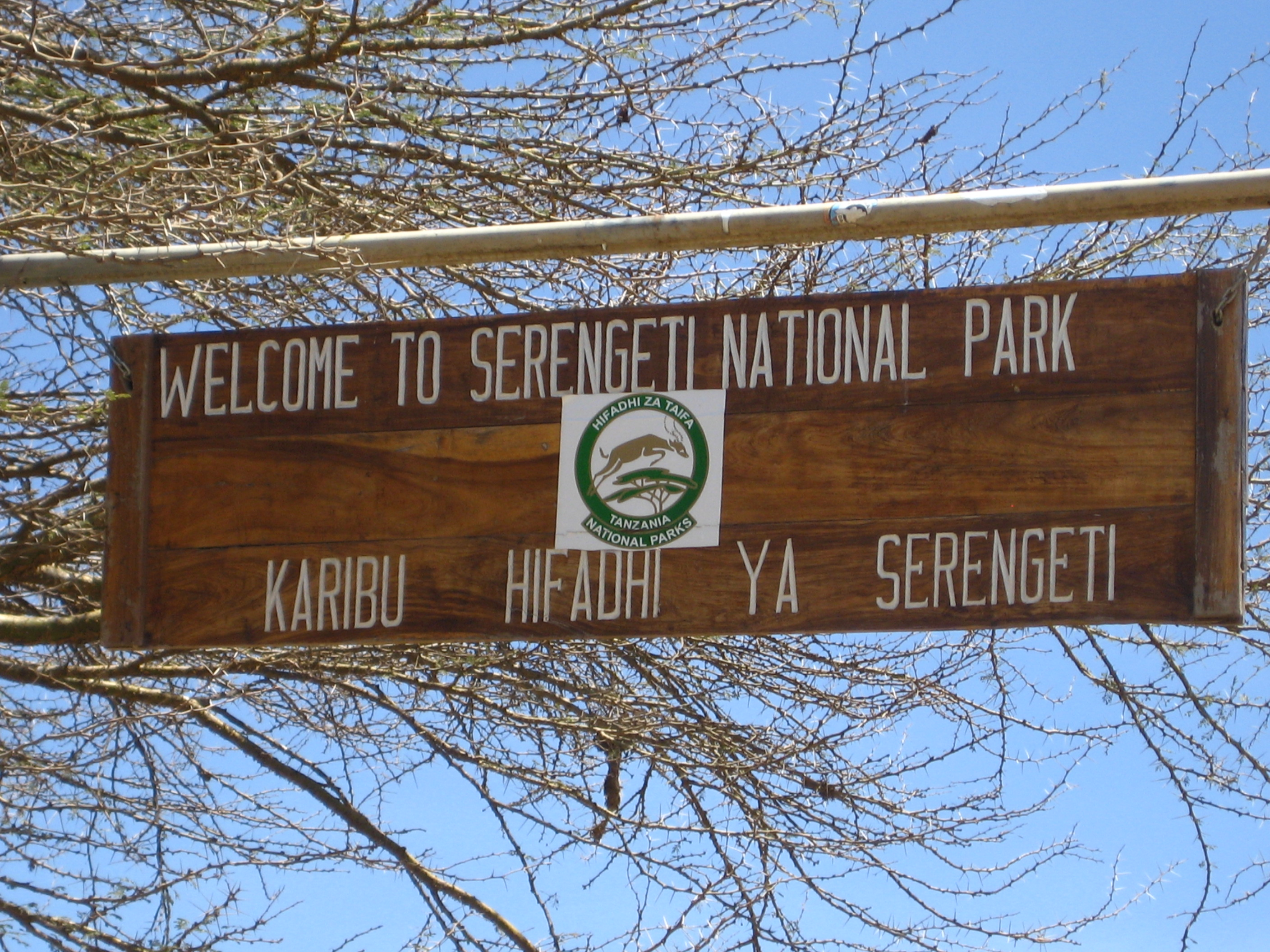 National park of Serengeti, Tanzania